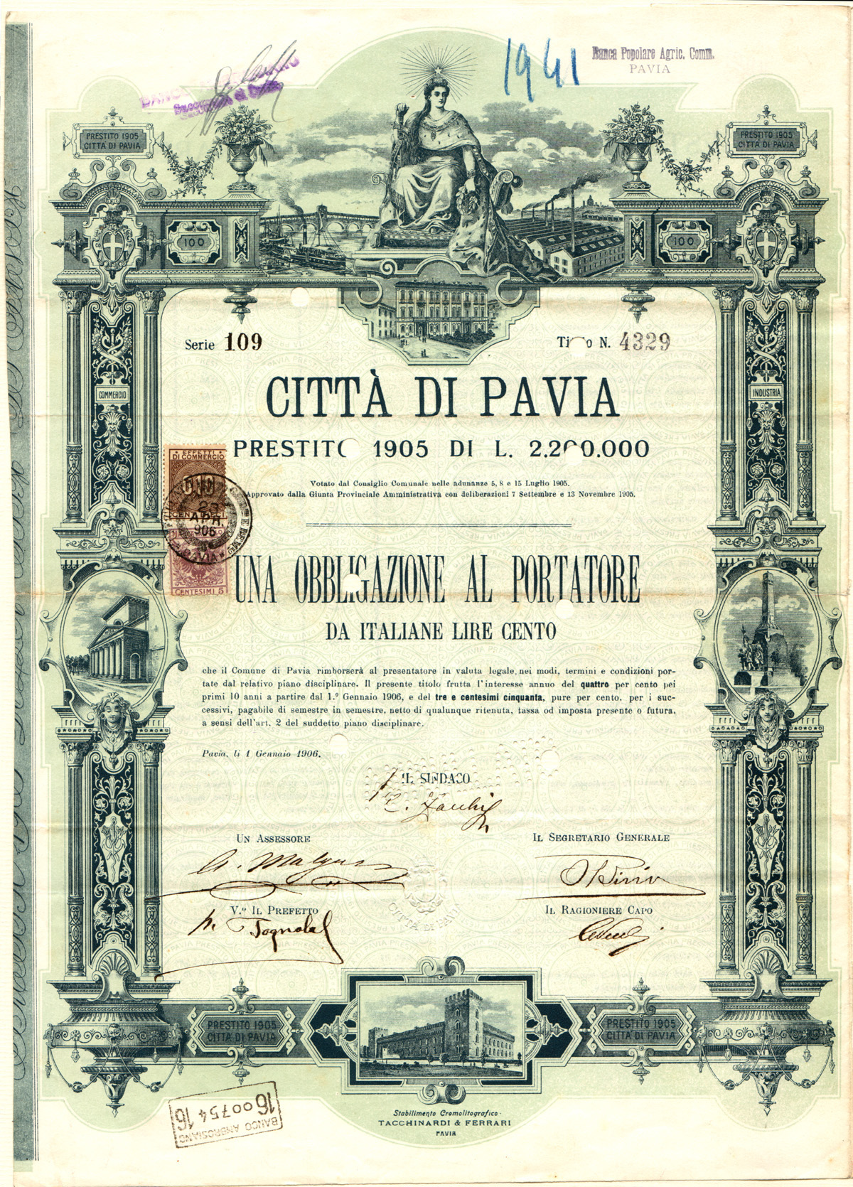 Bond of the City of Pavia, issued 1. January 1906